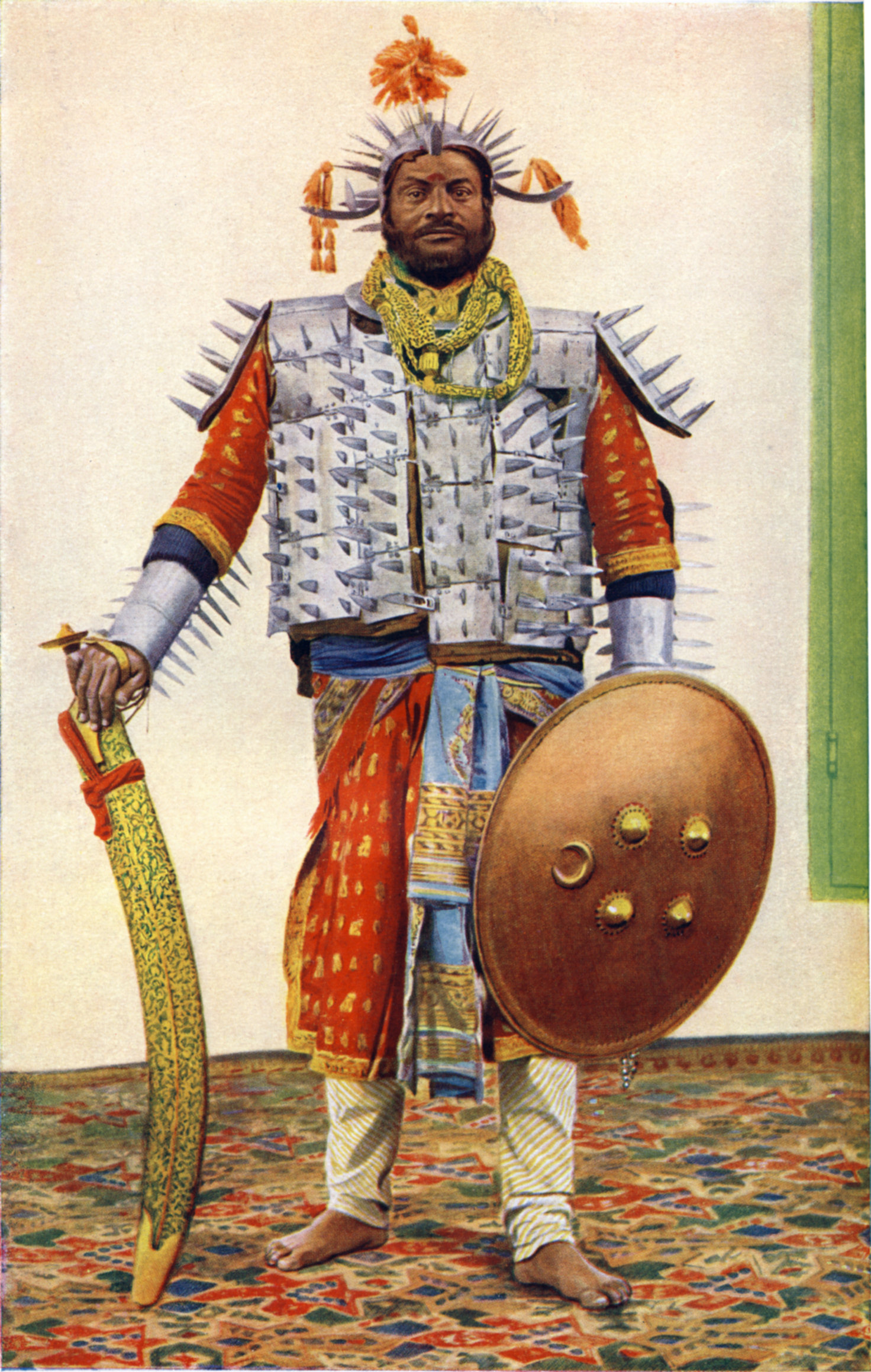 The executioner.Clad in the prickly insignia of power, the grim form of the executioner of Rewah, Central India, strikes terror to the heart of his victims.